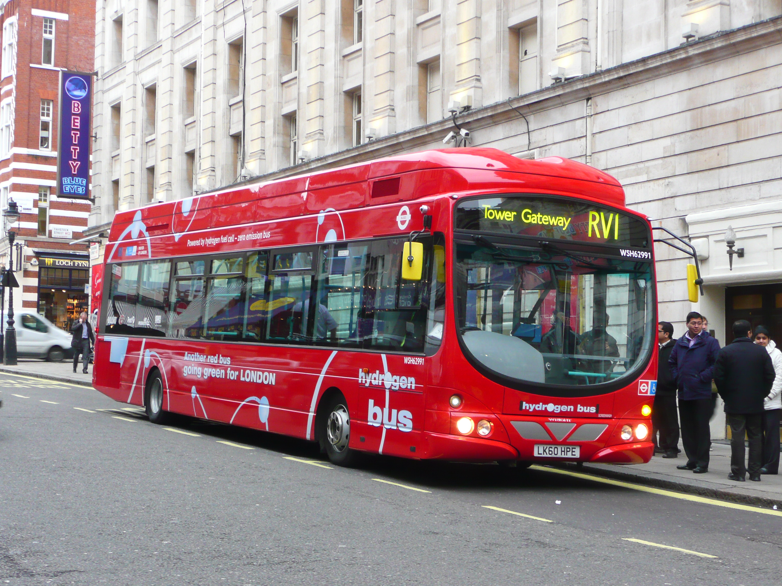 First London bus WSH62991 (reg. LK60 HPE), a 2010 single-deck fuel cell bus (based on a VDL SB200 chassis and Wrightbus Pulsar 2 body). Operating London Buses route RV1, it is pictured standing at the terminus in Covent Garden, facing south (Stop C in Catherine Street, just off Aldwych). It is part of the Transport for London / HyFLEET:CUTE project.